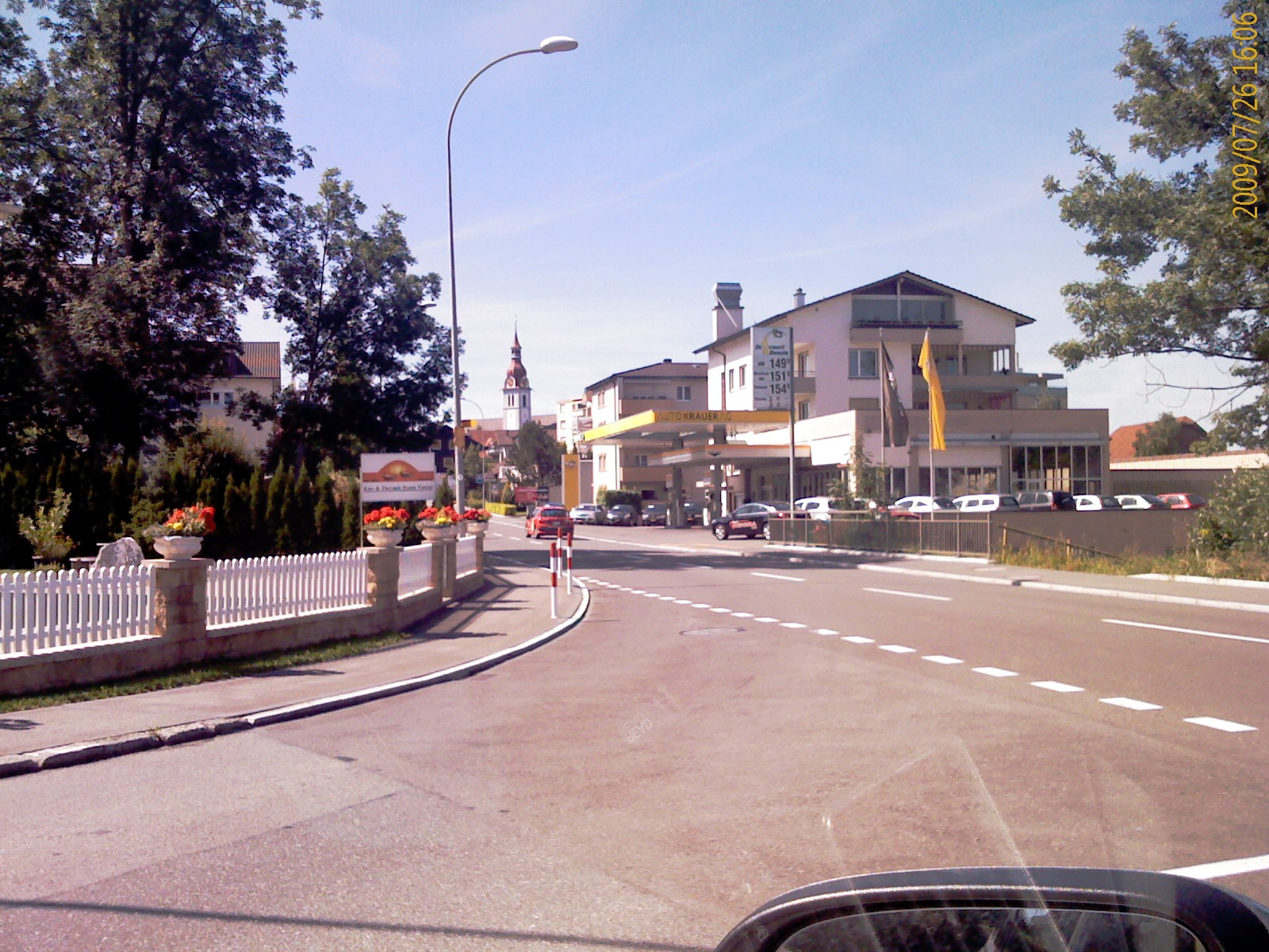 Village center of Neuenkirch, canton of Luzern, SwitzerlandEsperanto: Vilaĝocentro de Neuenkirch, Kantono Lucerno, Svislando